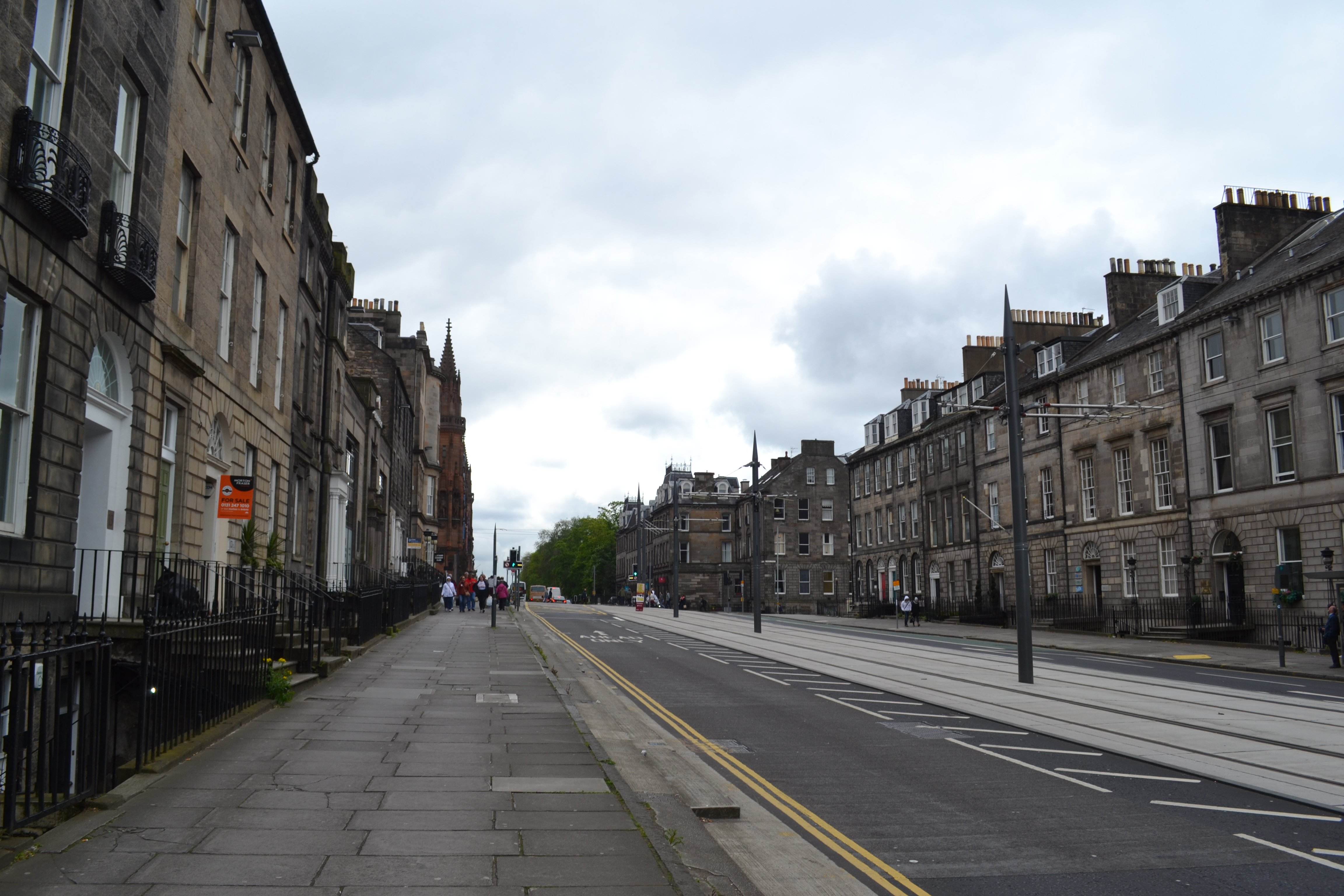 York Place, Edinburgh (2)